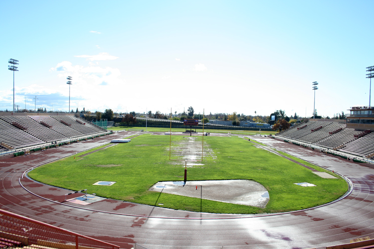 Depicted place: Charles C. Hughes Stadium